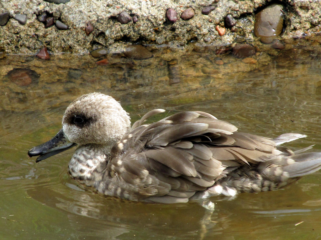 A threatened bird from Mediterranean regions.